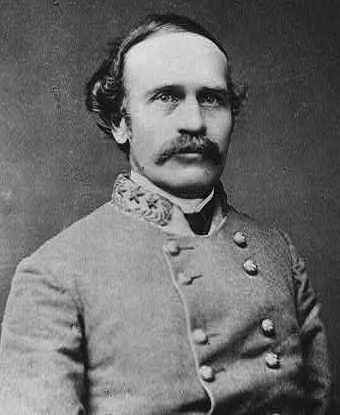 Bushrod Rust Johnson